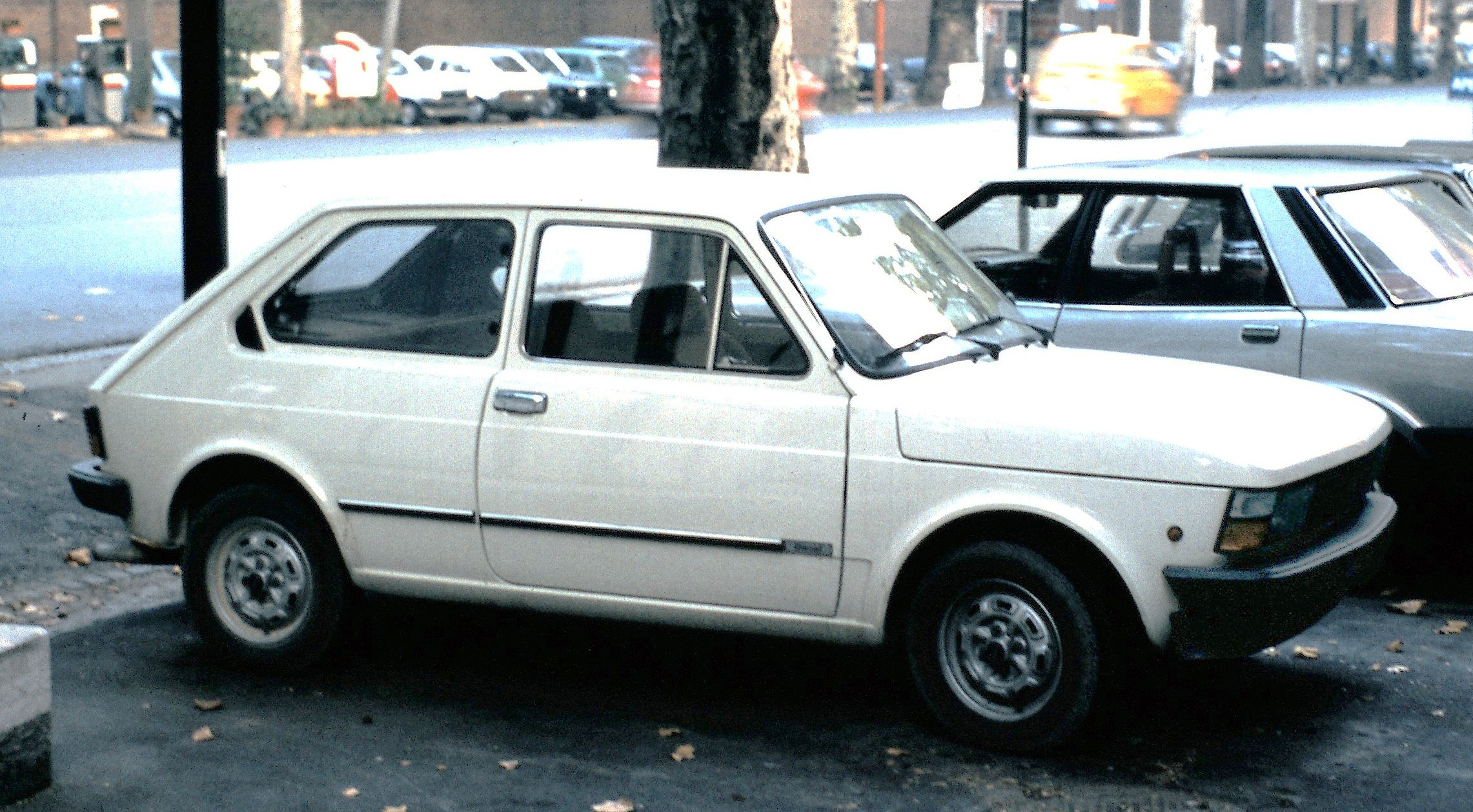 "Fiat 127 Diesel", actually a Brazilian-built Fiat 147 equipped with "127" badges for European markets. Hubiesen puesto uno más lindo. ¿No?